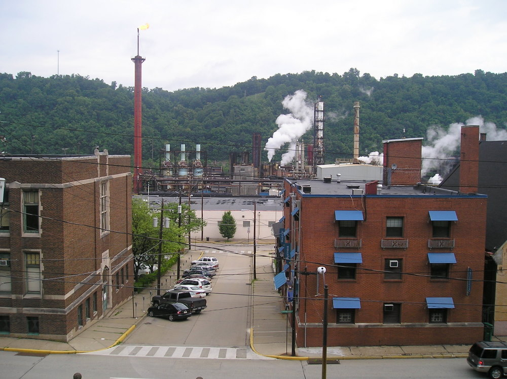 View of downtown Monessen, Pennsylvania, towards the coke plant. Taken near St. Leonard's church.